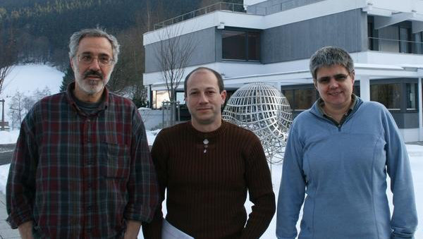 On the Photo (left to right): Jeff Kahn, Benjamin Sudakov, Angelika Steger — Occasion: Workshop Combinatorics — Annotation: organizers — Location: Oberwolfach — Author: Renate Schmid — Source: MFO — Year: 2011 — Copyright: MFO — Photo ID: 13483